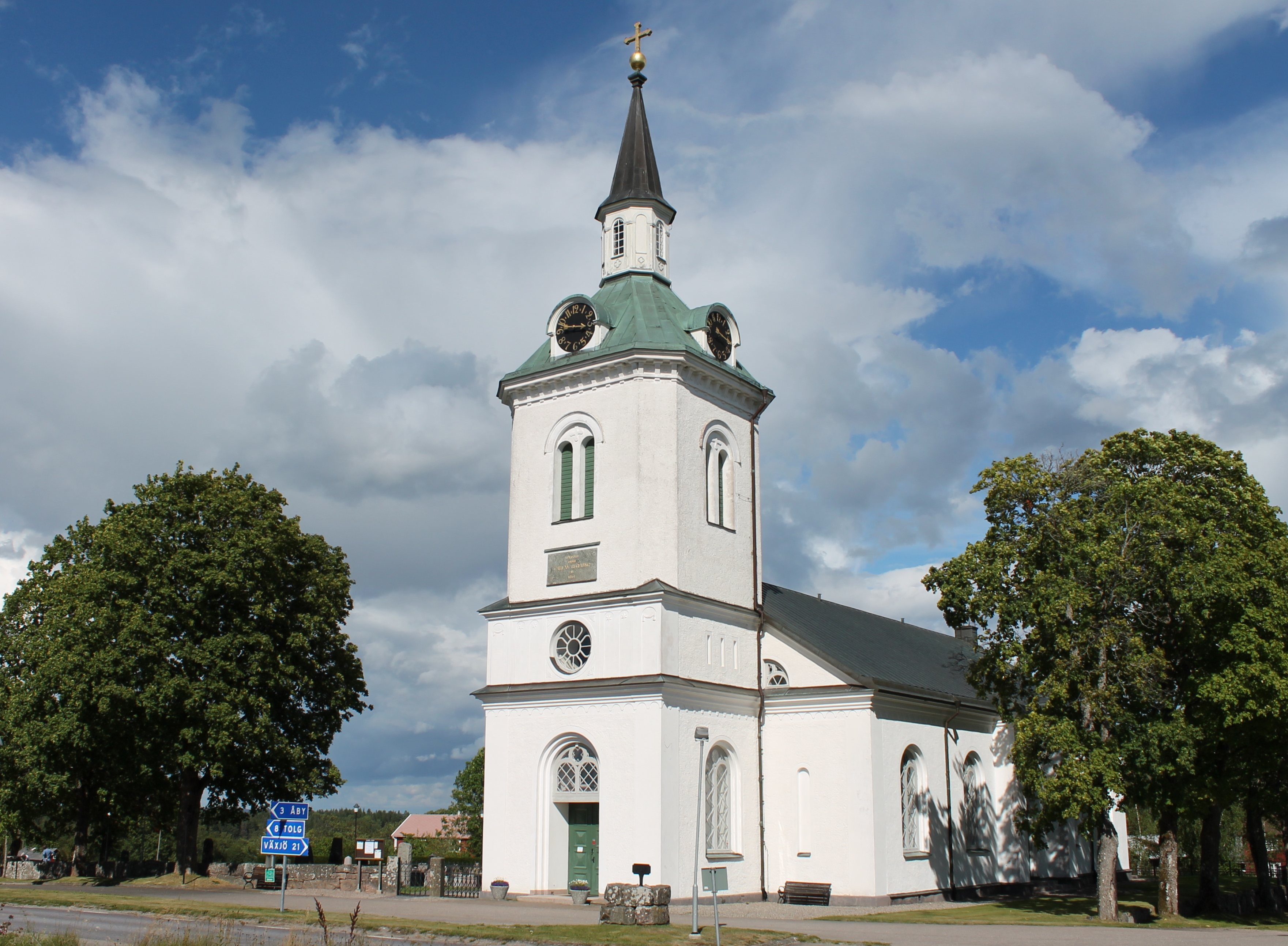 Tjureda Church.The church was built of stone in historicizing among style and consecrated in 1862 by Bishop Henrik Gustav Hultman.